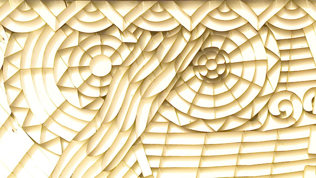 Detail of the patented ceiling grid and indirect lighting system used by Timothy L. Pflueger above the audience seating area at the Paramount Theatre in Oakland - California.